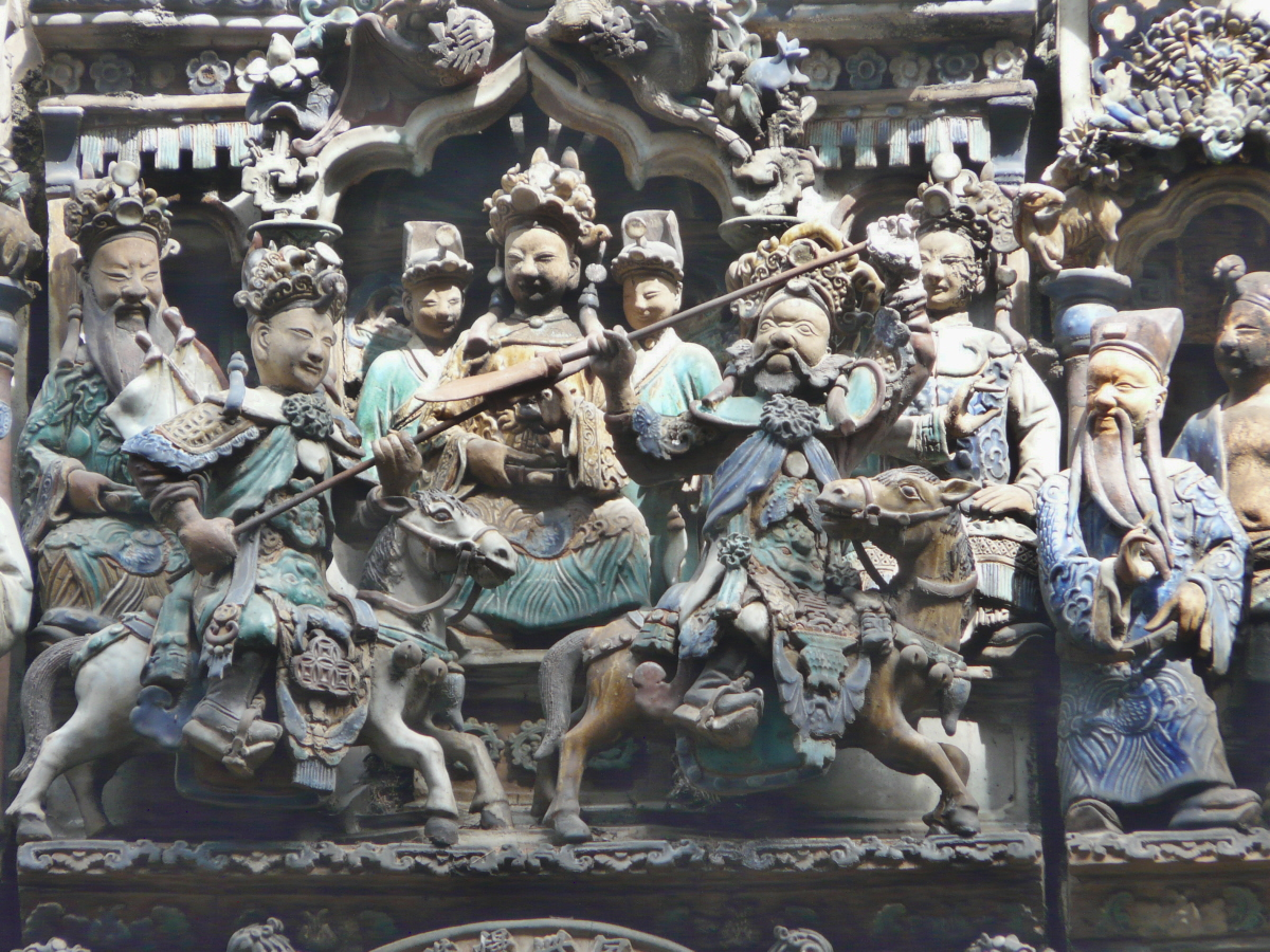 This scene is from the roof of Thien Hau Temple, Cho Lon, Ho Chi Minh City. It is crafted of porcelain. It is of actors depicting a duel between Guan Yu (Guan Cong in Vietnamese) and another warrior.